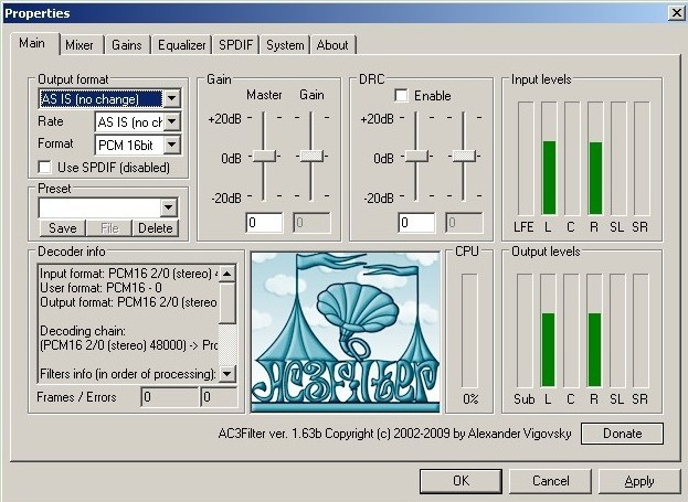 Screenshot AC3filter